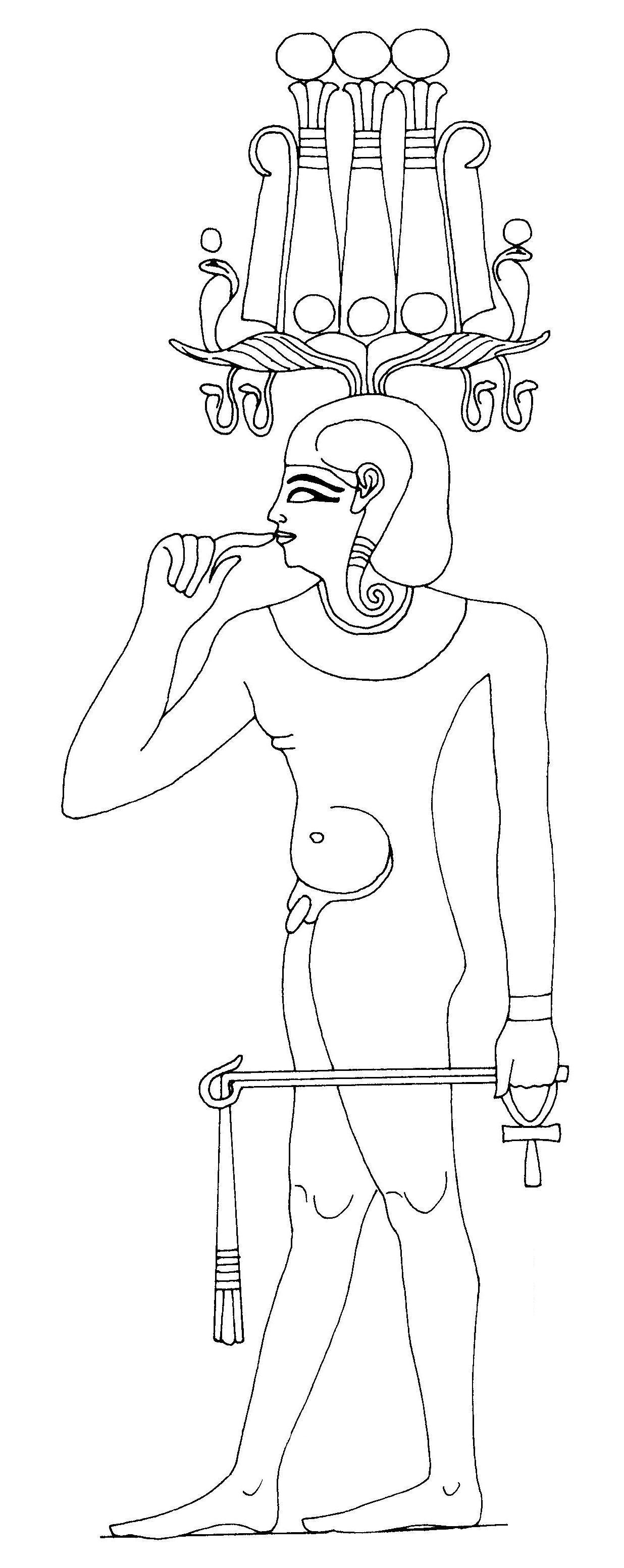 Heka-pa-chered (Heka, the child)